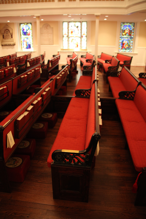 President's Pew at St. John's Episcopal Church in Washington, D.C., looking south.